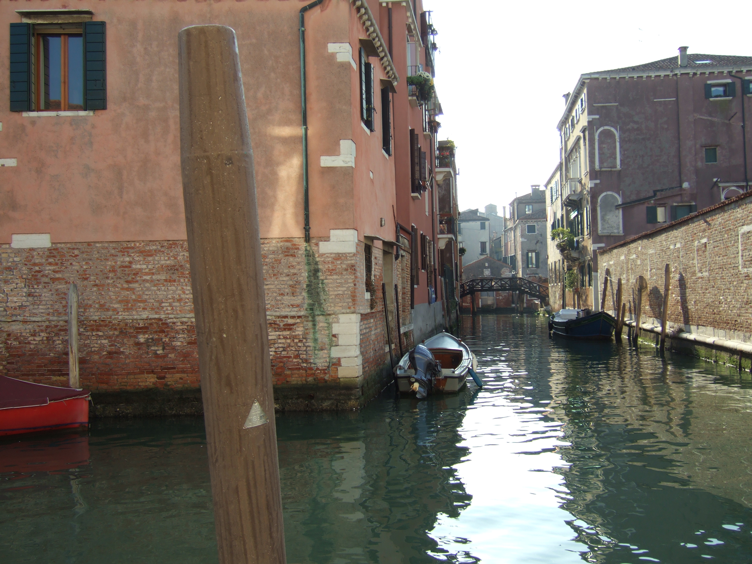 Rio dei Muti, Ponte dei Muti (Venice)